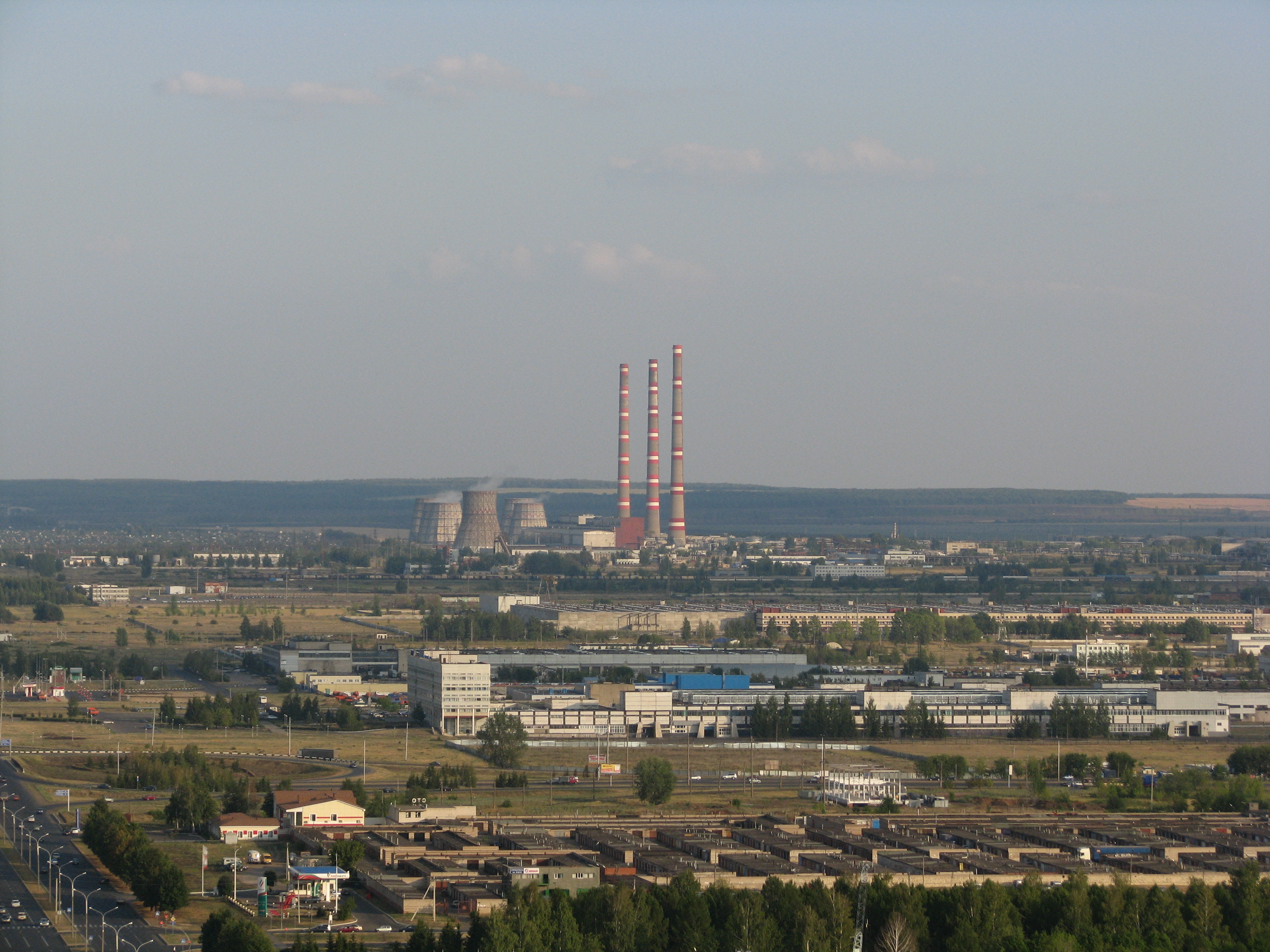 Combined heat and power plant (Naberezhnye Chelny) Татарча/tatarça: ТЭЦ (Чаллы шәһәре)